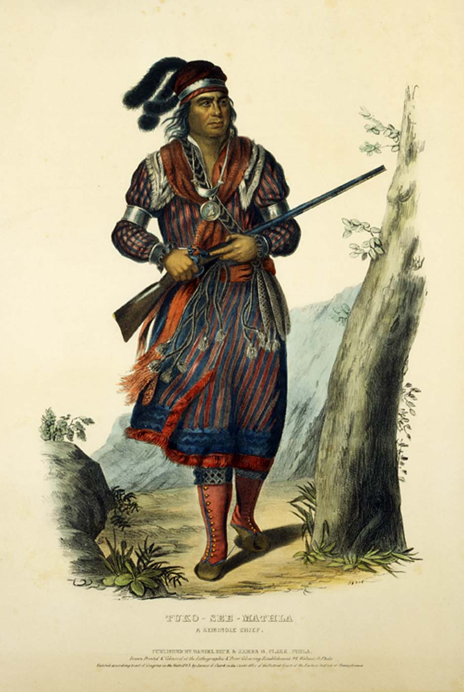 Portrait of Seminole Chief Tuko-See-Mathla